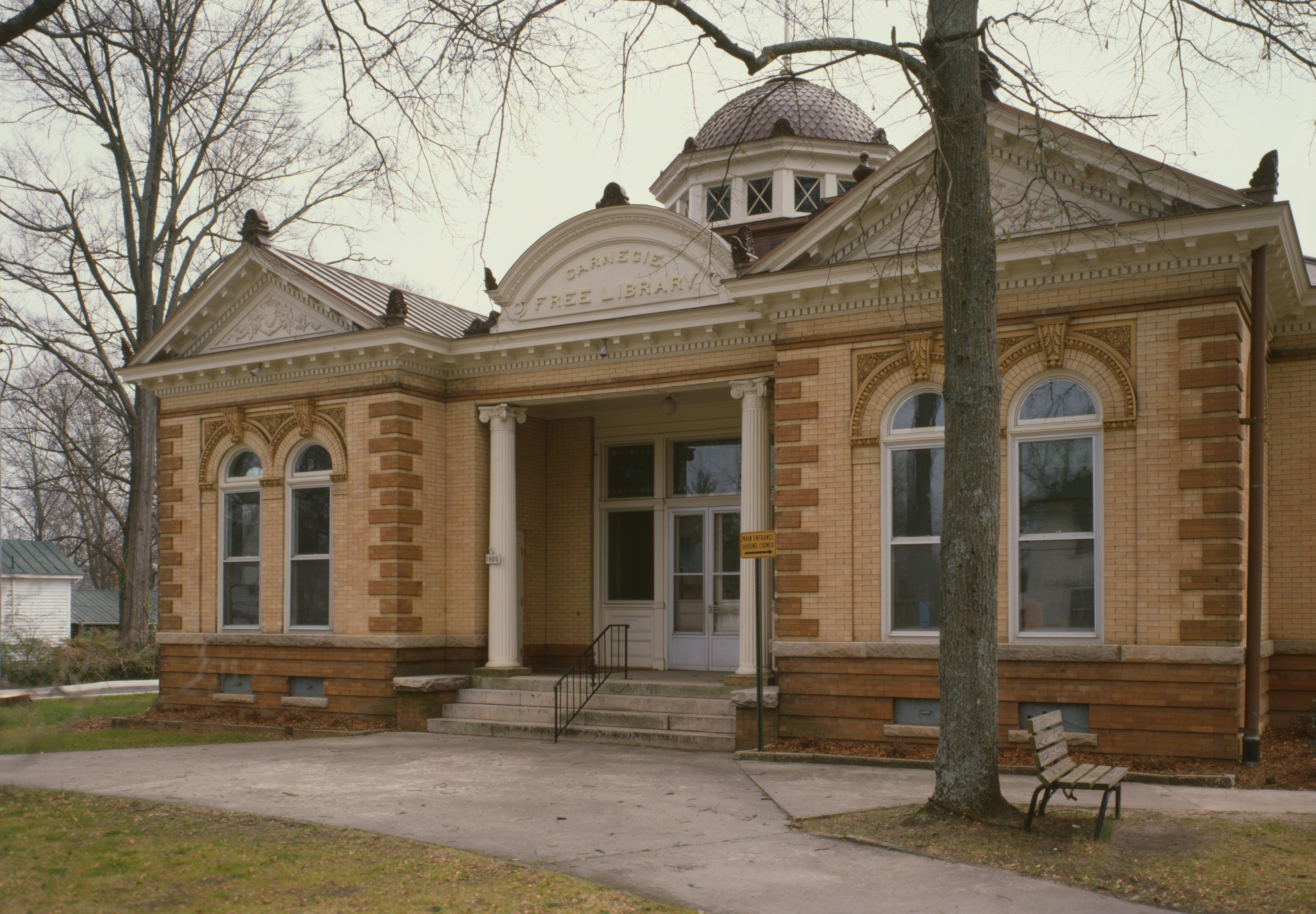 Front of the Union Carnegie Free Library, located at 300 E. South Street in Union, South Carolina, United States. Built in 1905, it is part of the South Street-South Church Street Historic District, a historic district that is listed on the National Register of Historic Places.